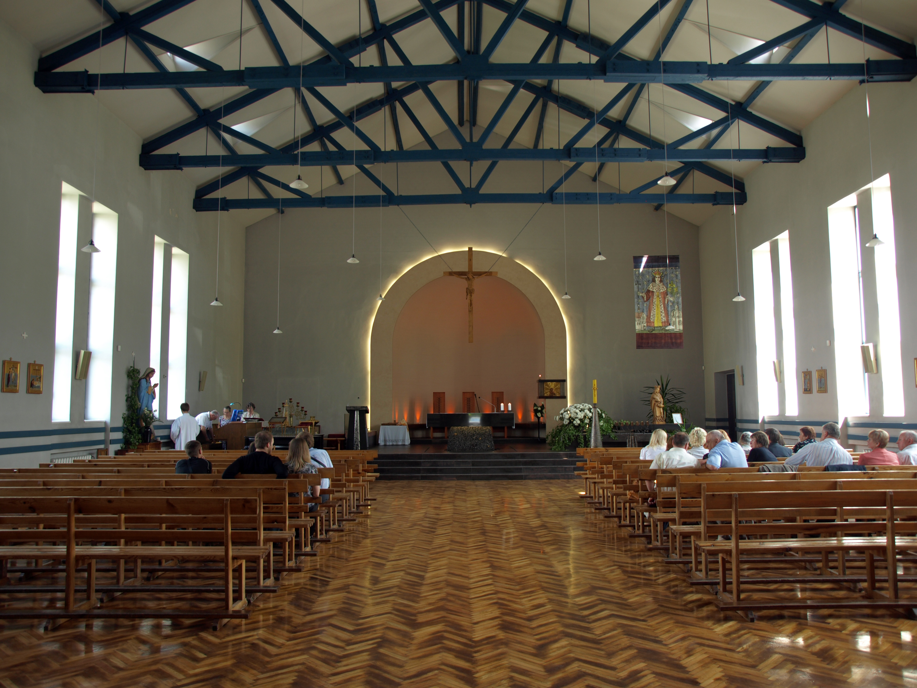 Alytus Saint Casimir church, Alytus, Lithuania